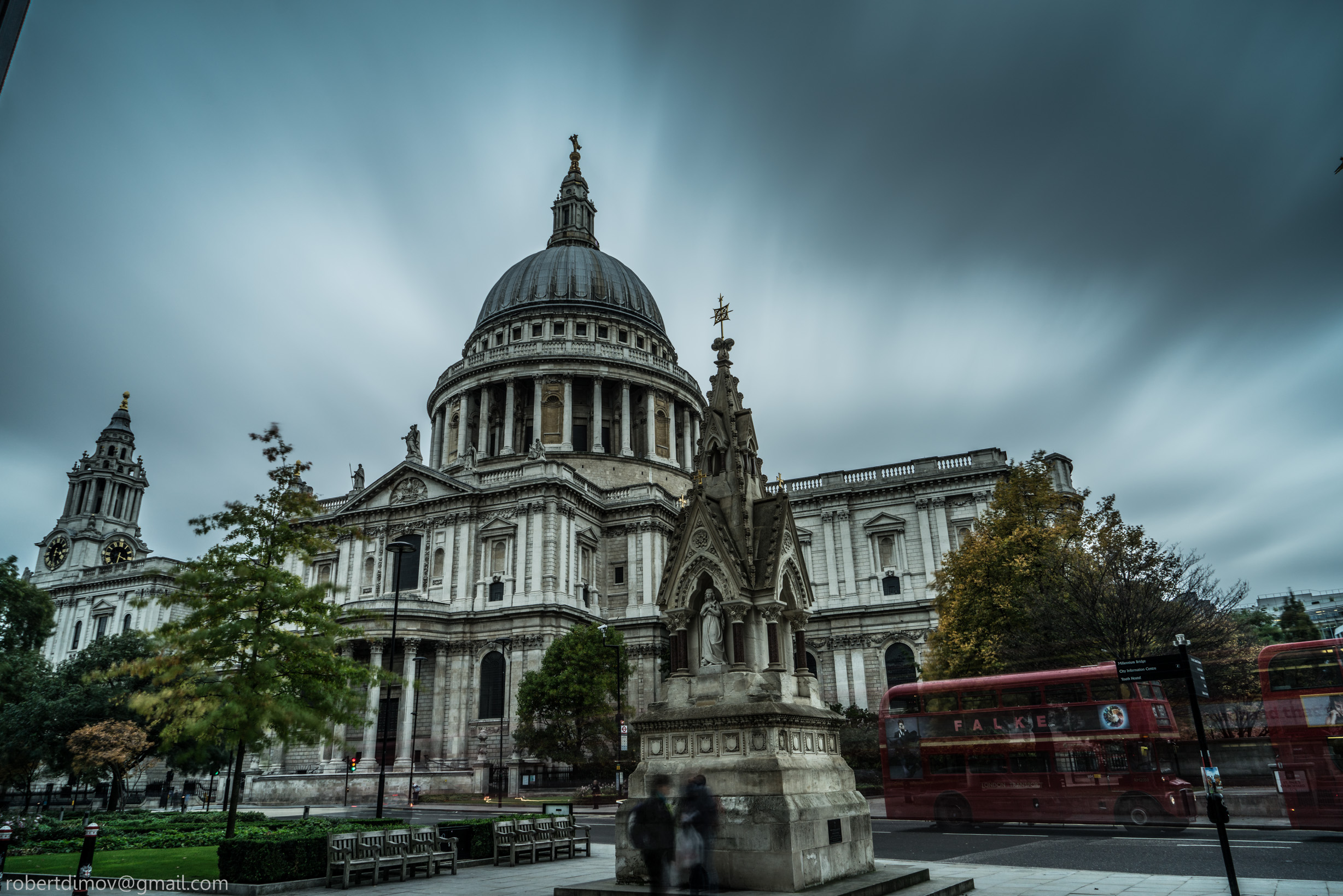 St.Paul Cathedral